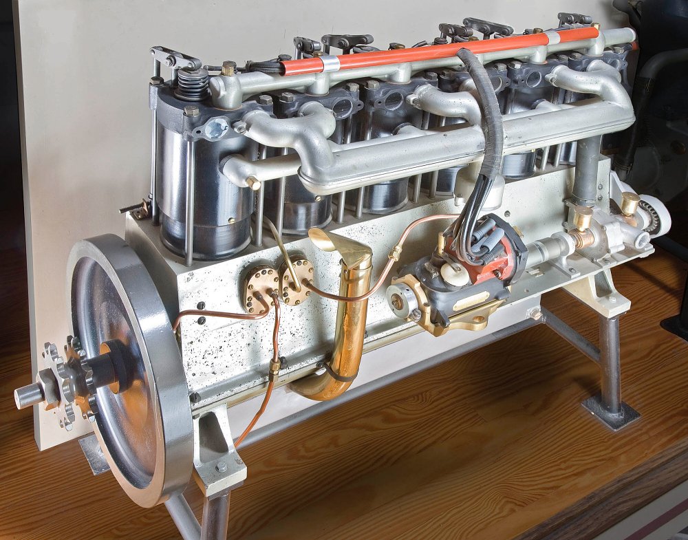 The Wright 6-60, In-line 6 Engine. This engine, manufacturer's serial number 11, was one of the first six-cylinder engines designed and built by the Wright Company. One of the earliest Wright six-cylinder engines was installed in the U.S. Army Signal Corps aircraft Number 10 at Fort Riley, Kansas.